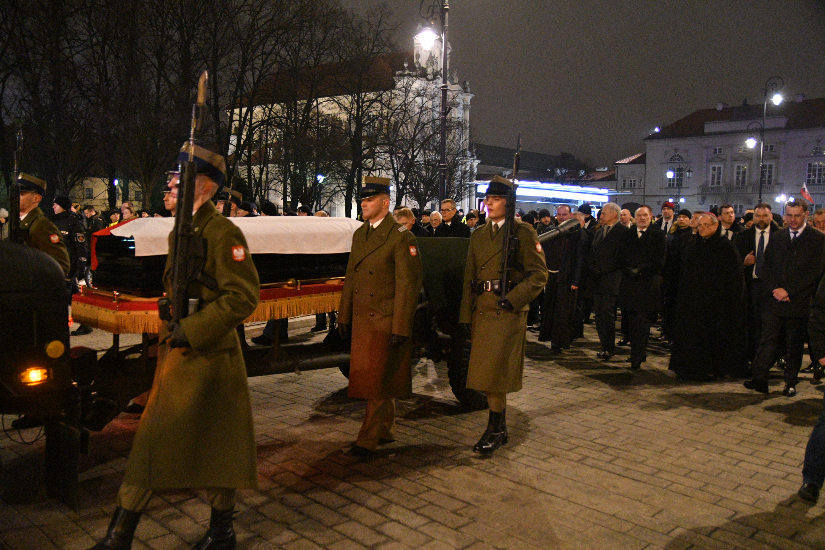 Farewell to former Prime Minister Jan Olszewski.